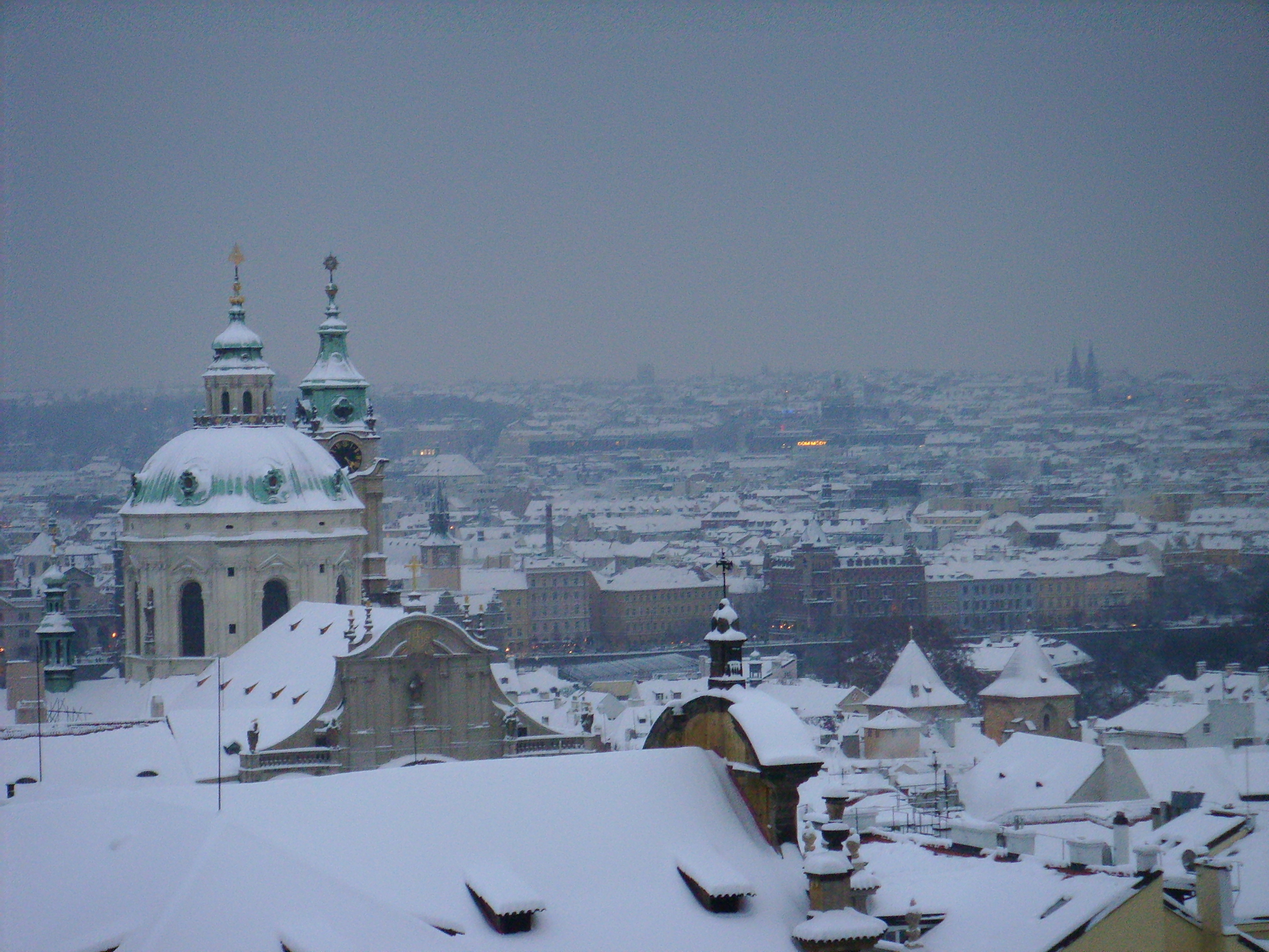 Aereal view of Praha in January.